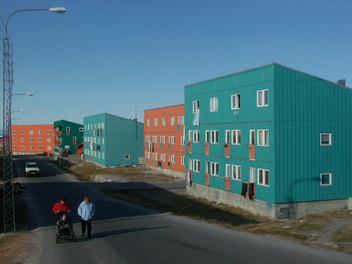 Public housing in Ilulissat, Greenland